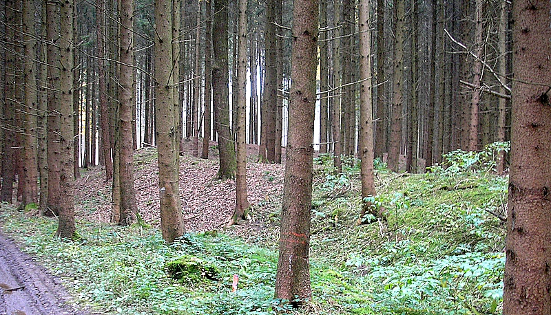 Early middle age ringwork "Kirchholz" near Haberskirch and Dasing (Bavaria, Germany). The eastern walls of the bailey.